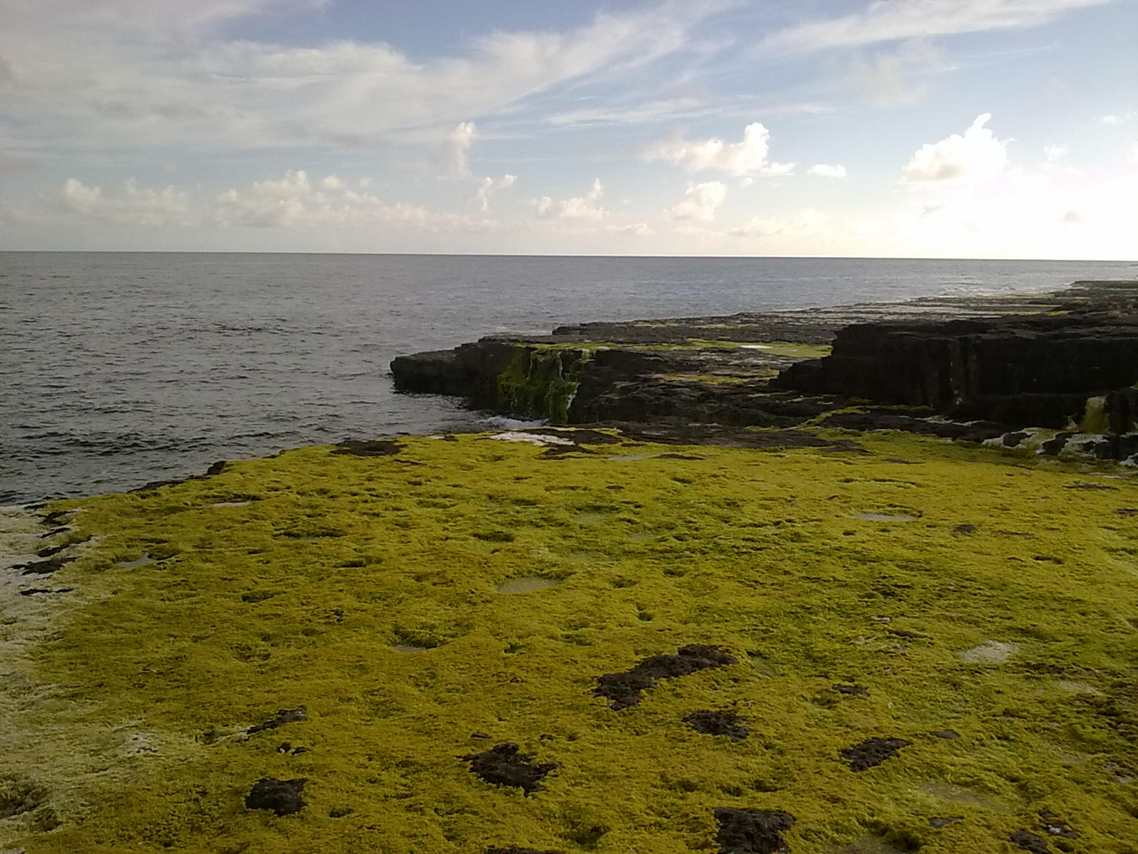 Coast Inis Meáin with green alga Ulva